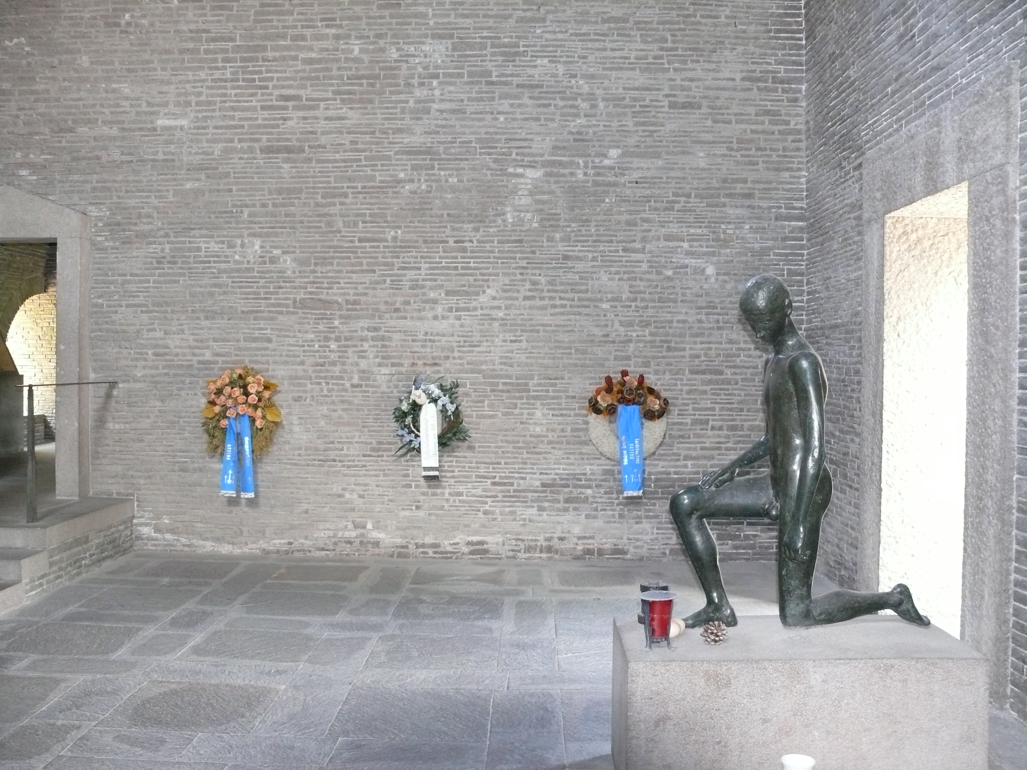 German War Cemetery Costermano (Italy). Sculpture by Hans Wimmer (1907-1992